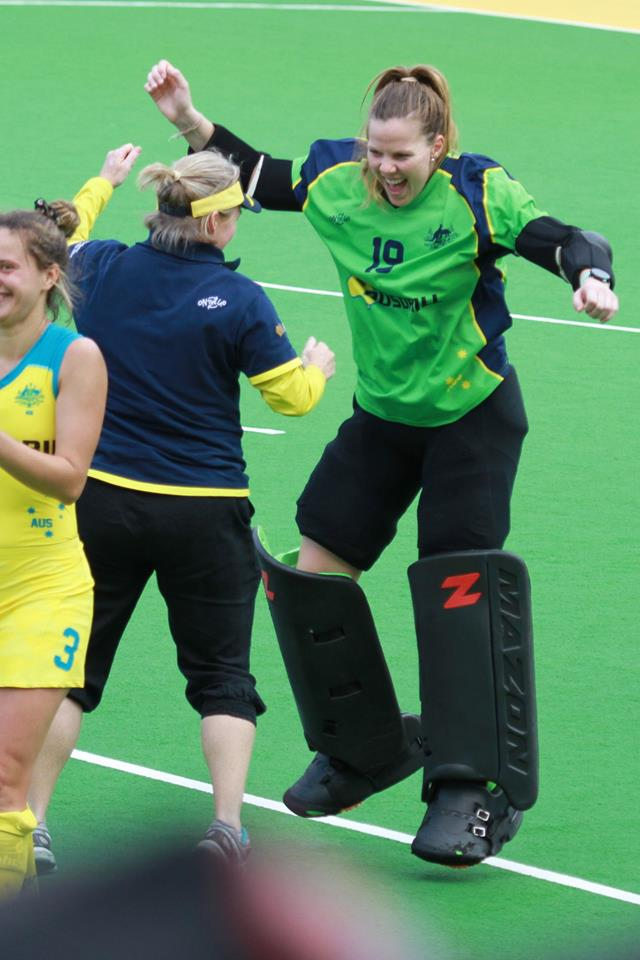 Jocelyn jumps for joy after the 2017 Oceania Cup final